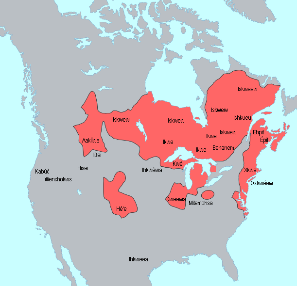 Le mot Femme dans les différents dialectes algonquiens